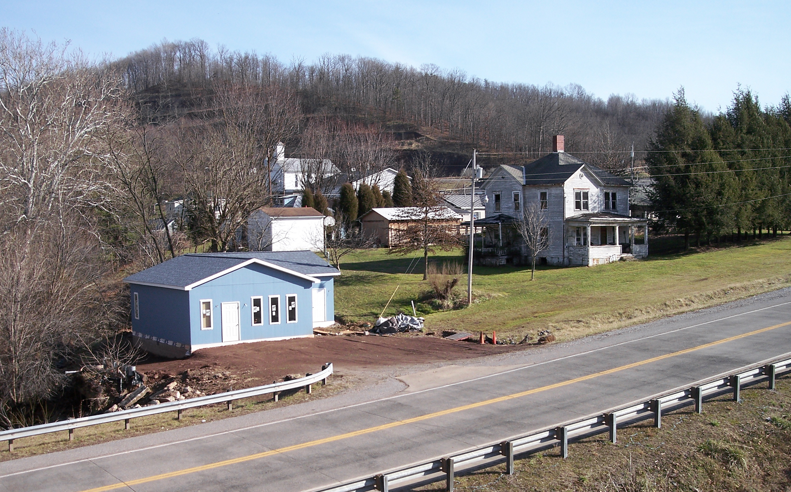 Buildings along West Virginia Route 16 in Ellenboro, West Virginia, as viewed from the North Bend Rail Trail